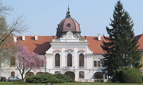 Front view of the castle of Gödöllö. This castle was the summer residence of Franz Josef of Austria and his wife Elisabeth ("Sissi"). This is a photo of a monument in Hungary, Identifier: 7051 The picture was taken on March 16, 2003 at 16.24 h with a Canon PowerShot G2.